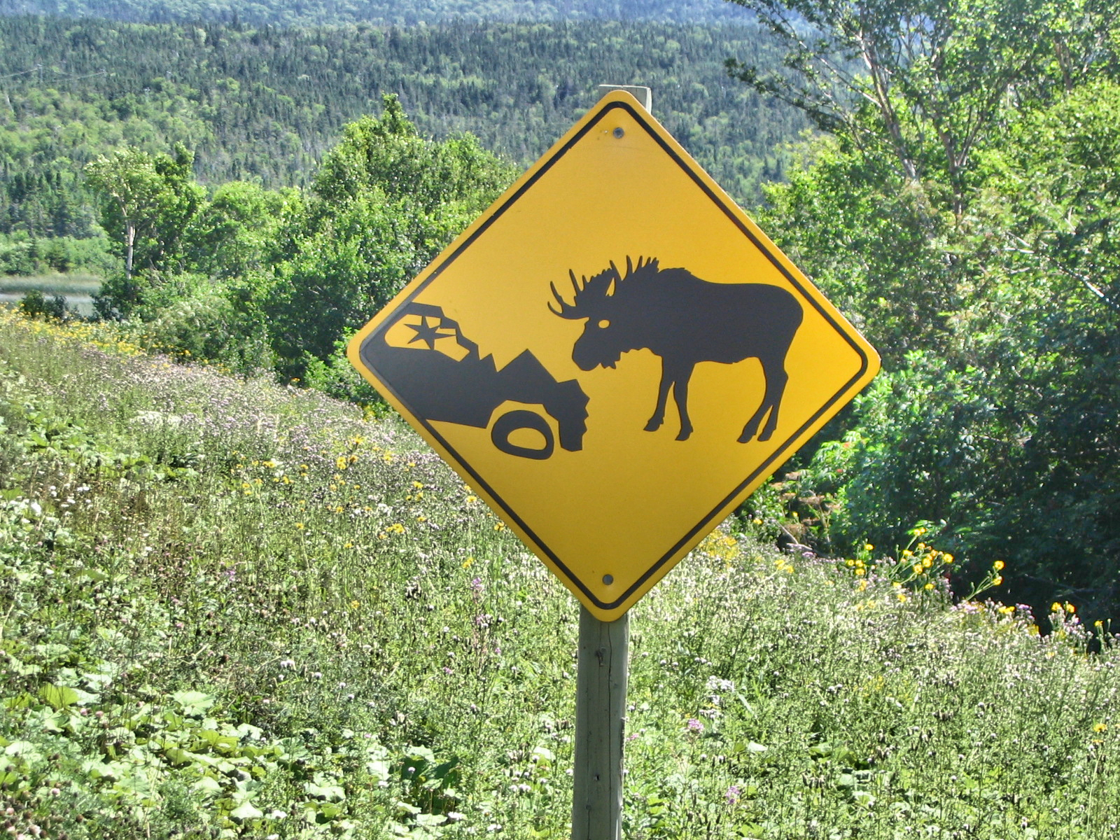 Moose sign, Gros Morne National Park